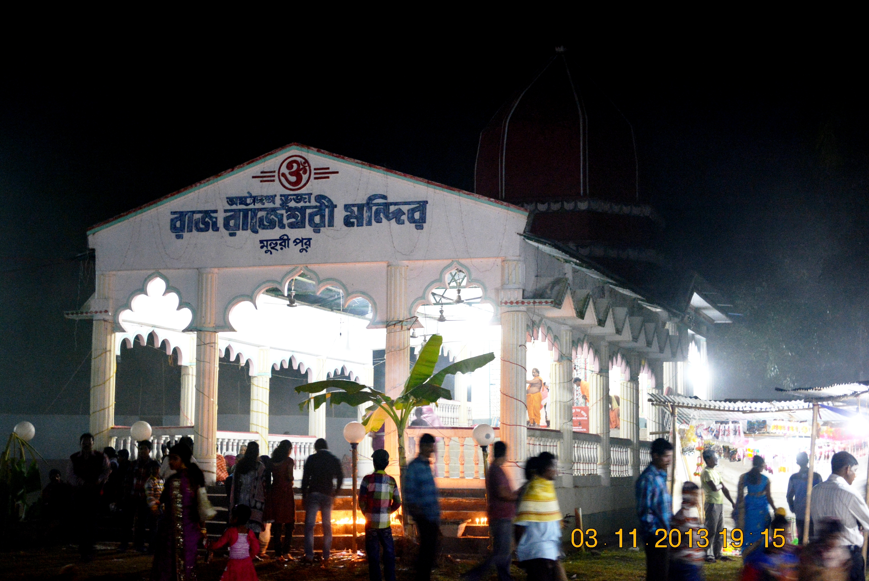 Almost 76 Years ago Harananda Giri Maharaj has brought tha piligram of Raj Rajeswari having 18 hands incloding three other Piligram namely GANESHA,SURYA,And CHANDI, in Muhuripur.bilonia, south TRIPURA.INDIA.The Weight of Debi Raj Rajeswari Piligram is approx-1000kg.